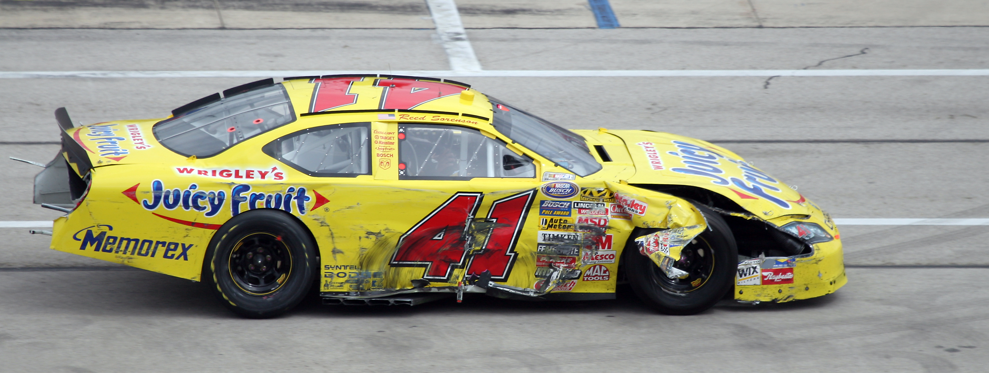 Reed Sorenson's Juicy Fruit Dodge got pretty torn up.